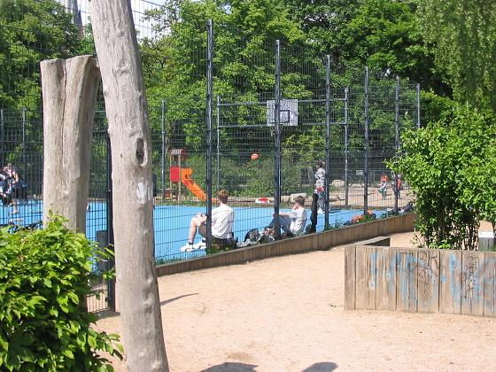 Volkspark Wilmersdorf in Berlin; basketball playground